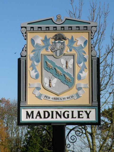 Madingley village sign, Cambridgeshire, arms of Colonel Thomas Walter Harding (1843–1927), an industrialist and civic figure in Leeds, West Yorkshire. Blazon: Argent, on a bend nebuly azure between two bees volant proper three martlets or. Thomas Walter Harding purchased the Madingley Estate in Cambridgeshire in 1905 and he sold it to Cambridge University in 1948. The Latin motto Per Ardua Surgo (here mis-spelled as surco) means "through difficulties I rise". His family roots were in Doddington[1]. Madingley Hall is next to the church and is now owned by the University of Cambridge and is currently the home of the Institute of Continuing Education. The sign bears a plate with this inscription: MINNIE BROWN 1886-1978 THIS SIGN WAS DONATED BY THE RESIDENTS OF MADINGLEY AND FRIENDS IN RECOGNITION OF HER DEVOTED SERVICE TO THE COMMUNITY FOR SIXTY-ONE YEARS. ERECTED 1981. His arms are also visible in the Church of St Mary Magdalene, Madingley, see image[2]